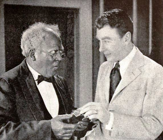 Still from the American silent drama film Toby's Bow (1919) with Tom Moore and Nick Cogley, from page 65 of the January 1920 Shadowland. Cogley played "Uncle Toby" in blackface. The use of white actors in blackface for black film characters did not end until the 1930s.